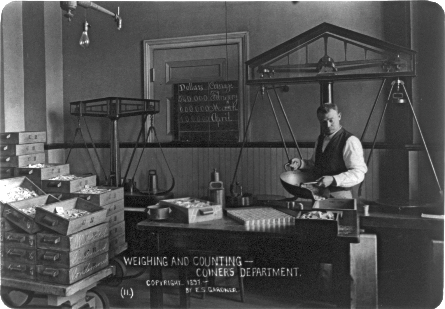 Weighing and counting - Coiner's Department, U.S. Mint in New Orleans, 1897